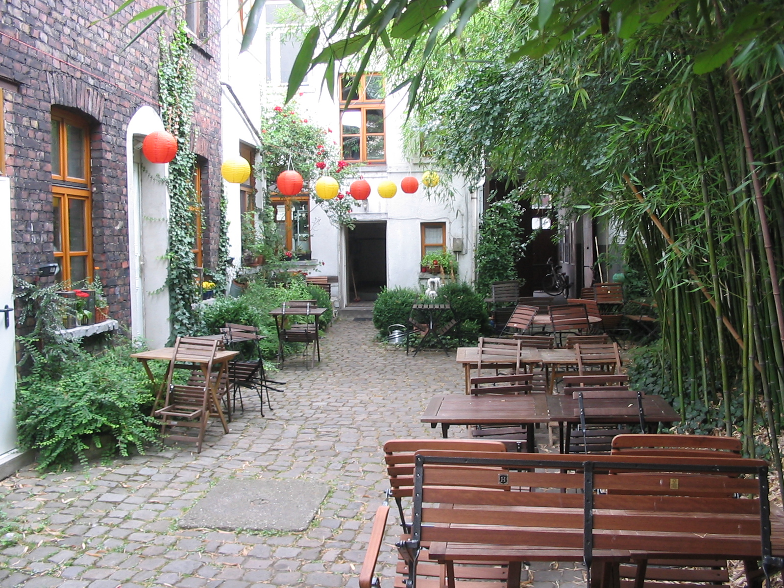 Bambusecke (bamboo corner), courtyard of cultural center Langer August in Dortmund.